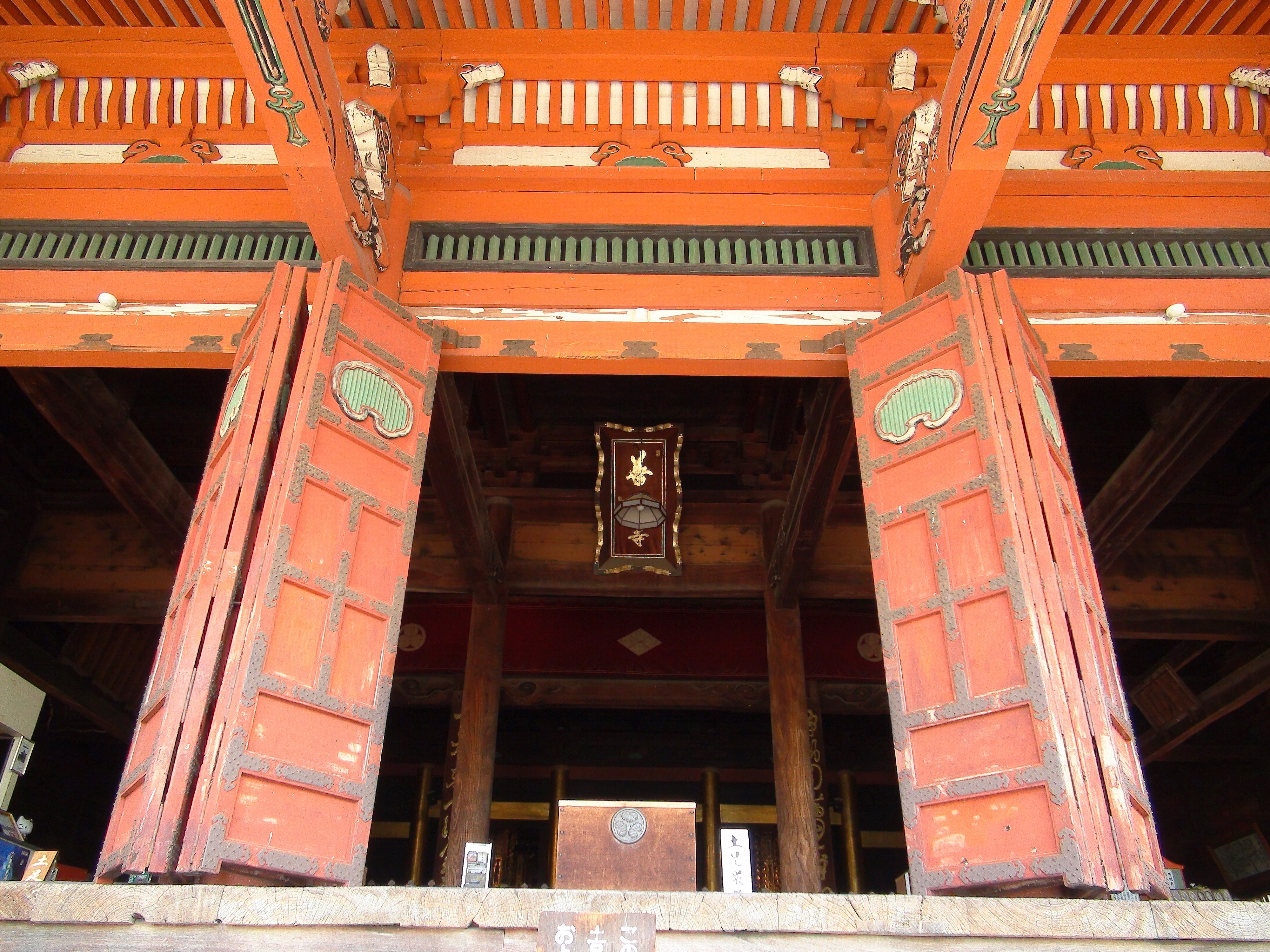 Kai-Zenkoji-temple hall of a Buddhist temple inside №2